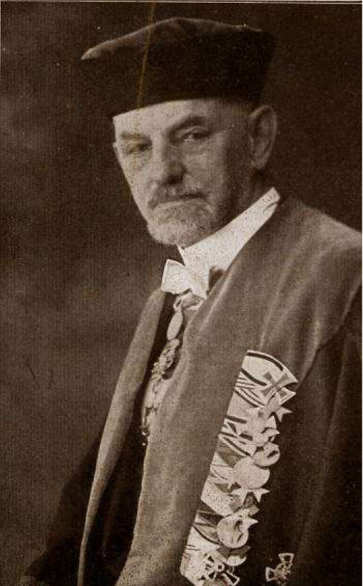 Karl Arnold ca 1889, Director of the Chemical Institute at the Königliche Tierarzneischule (Royal Veterinary School) in Hanover (now the University of Veterinary Medicine Hanover)